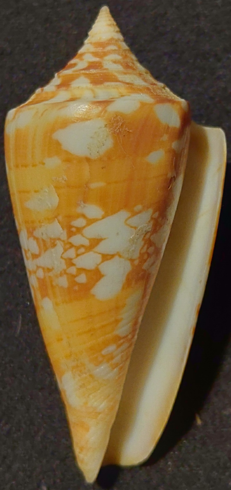 Conus Amadis Aurantia (var.) Front